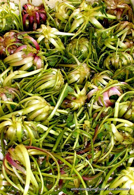 نباتات برية سورية تؤكل